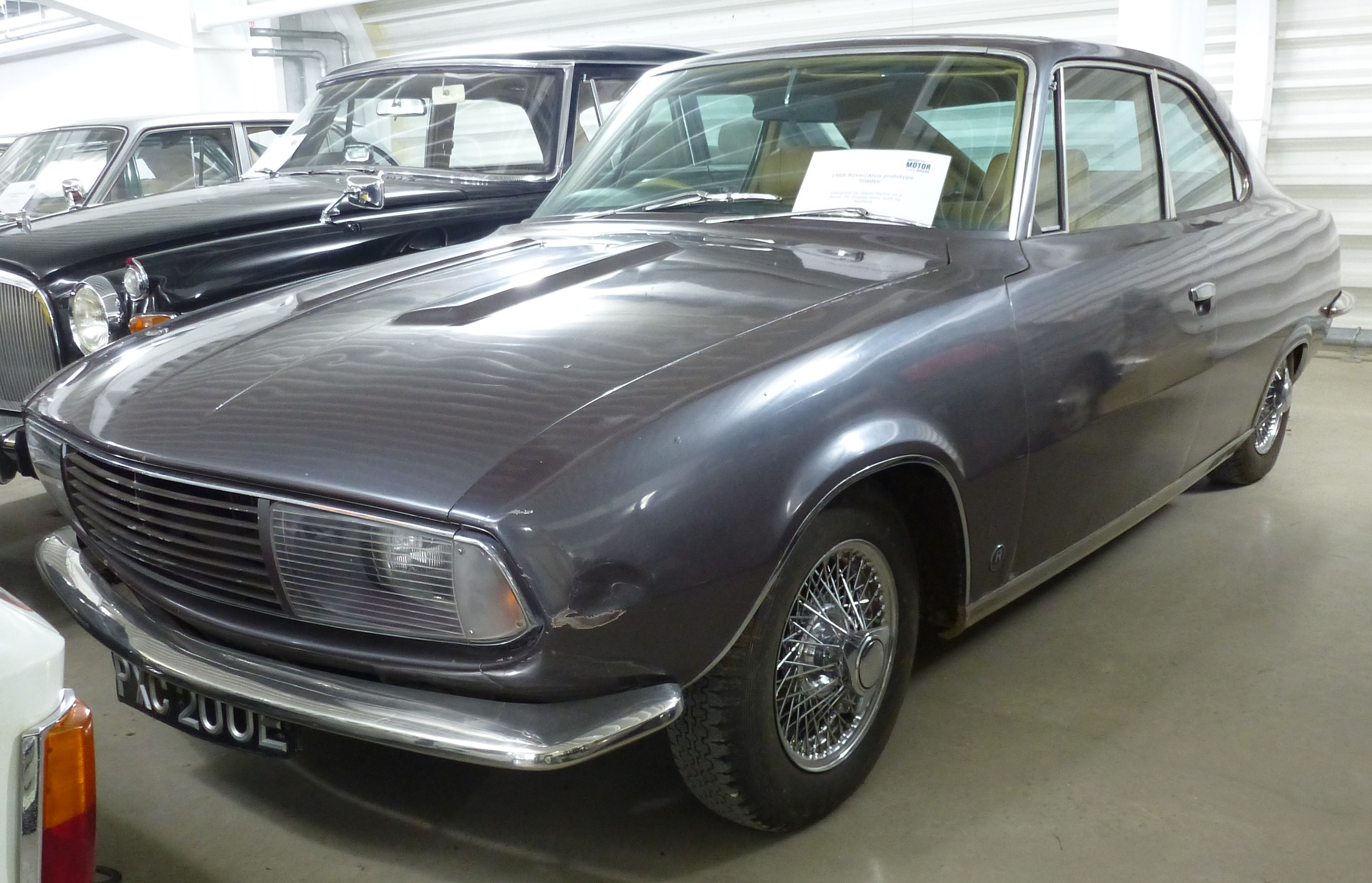 Rover-Alvis Gladys 1966